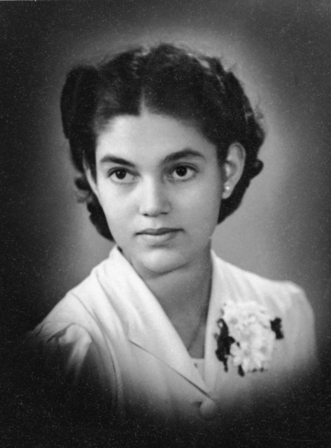 Studio portrait of Jan O'Herne, taken at Bandoengan, Java, shortly before she was interned with her mother and two sisters along with other Dutch citizens by the Japanese Imperial Army after its capture of Java on 8 March 1942.